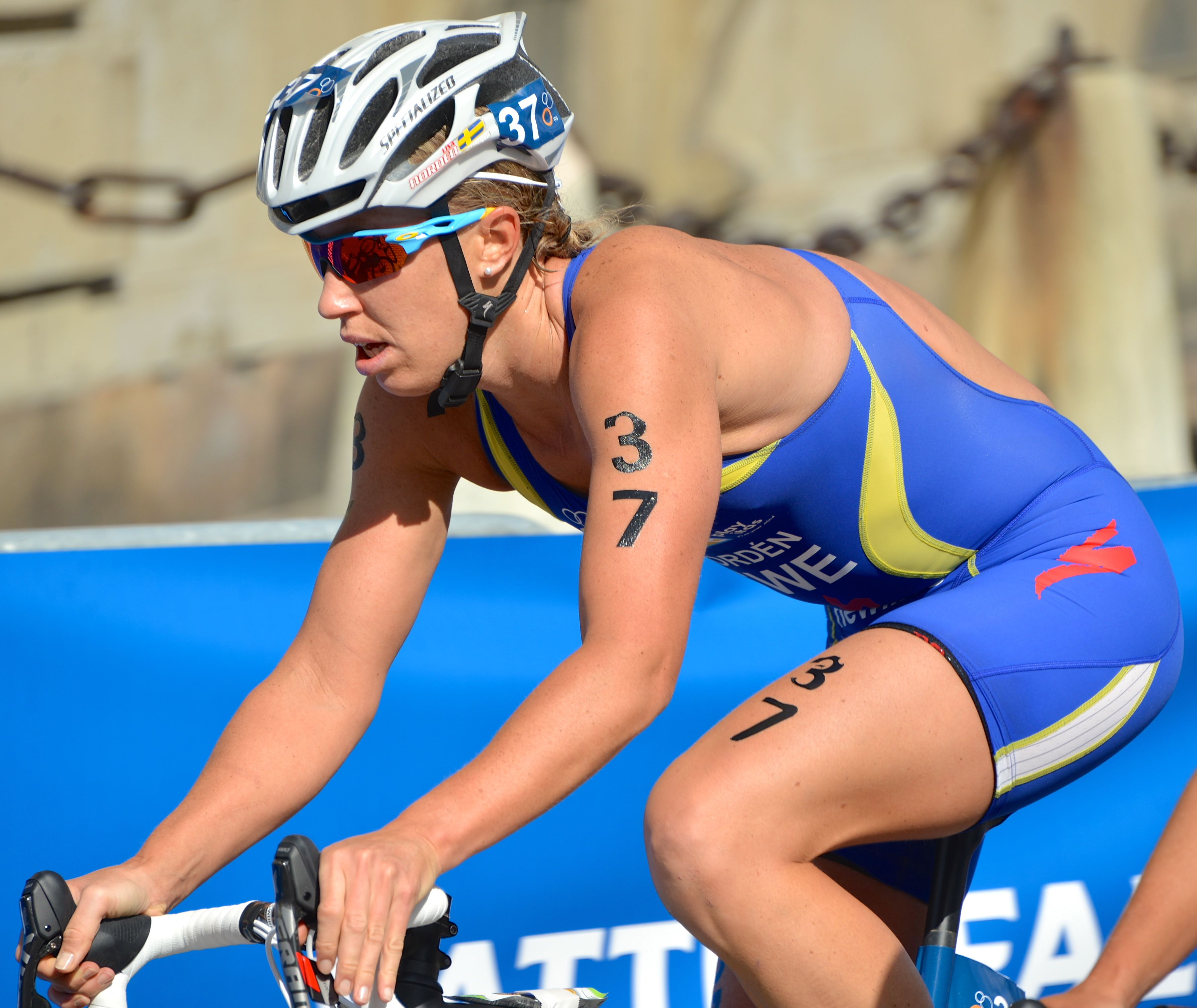 Lisa Nordén in 2013 ITU World Triathlon Stockholm.